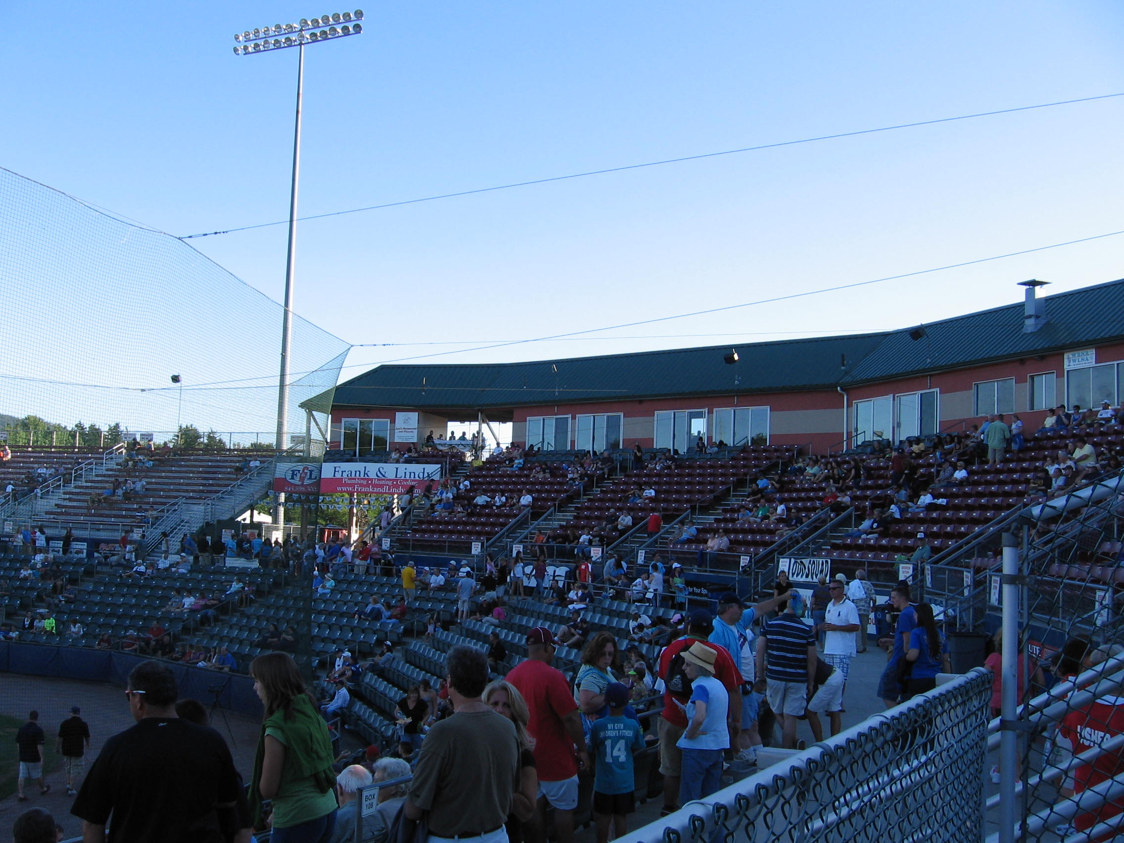 Dutchess Stadium, August 2010